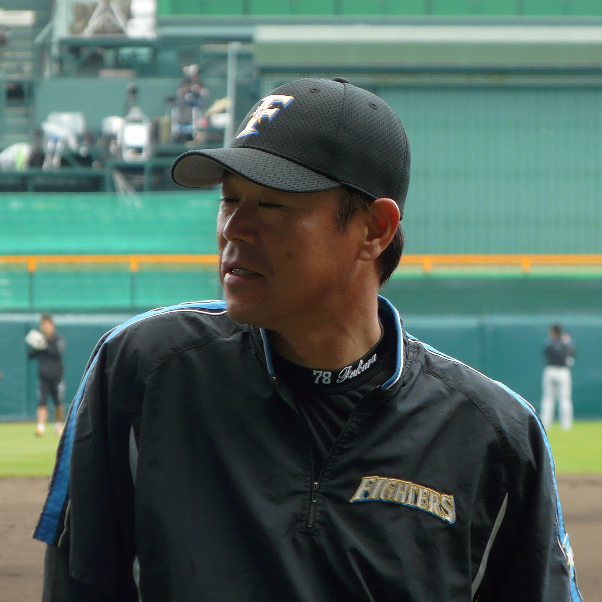 Junichi Fukura, coach of the Hokkaido Nippon-Ham Fighters, at Hanshin Koshien Stadium